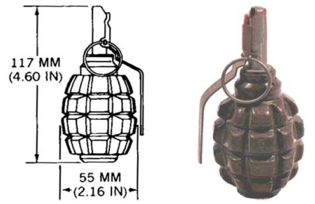 An F1 hand granade